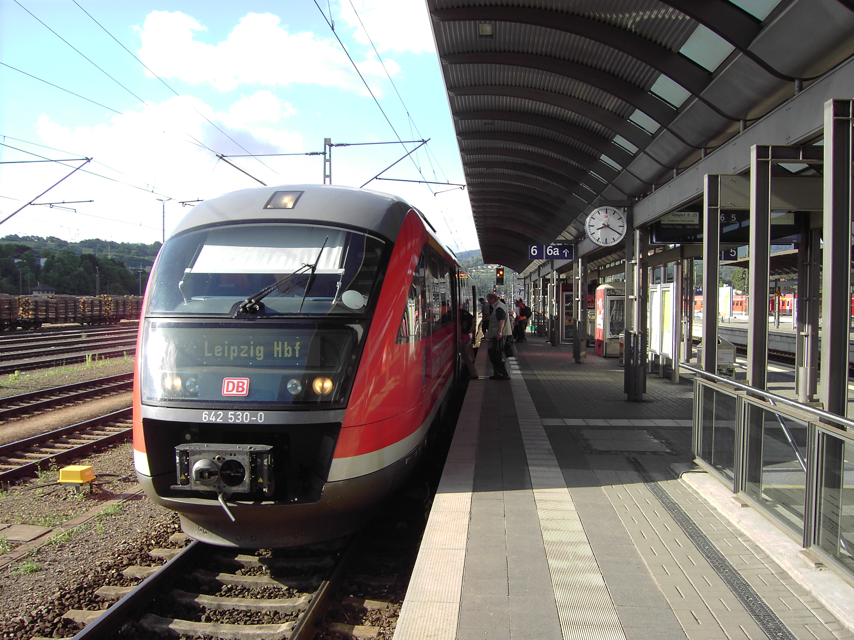 DMU, Class 642, to Leipzig at the train station of Saalfeld